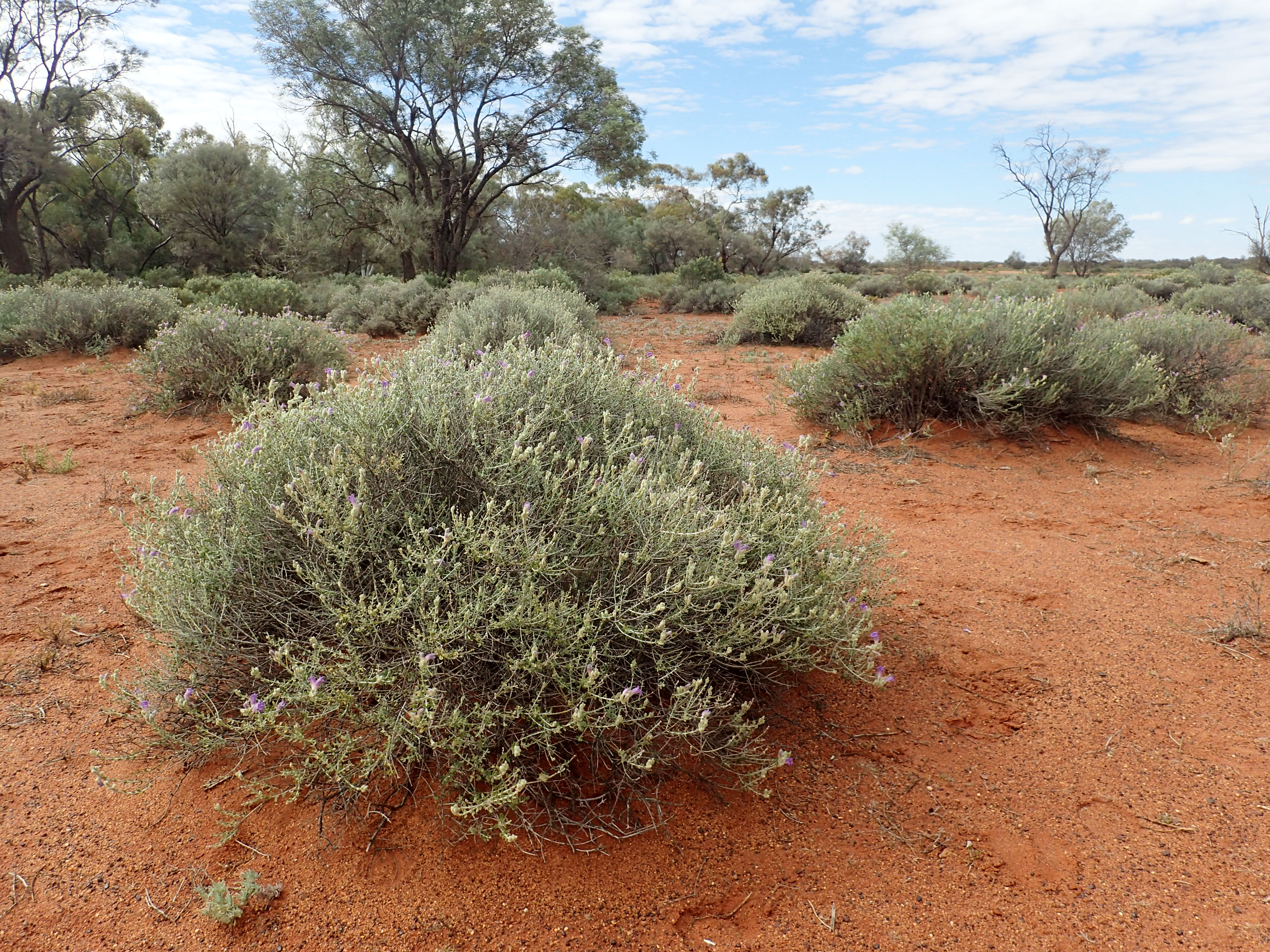 Eremophila malacoides growing 50km west of Wiluna